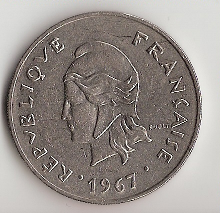 Common face for 10, 20, 50, ans 100 XPF